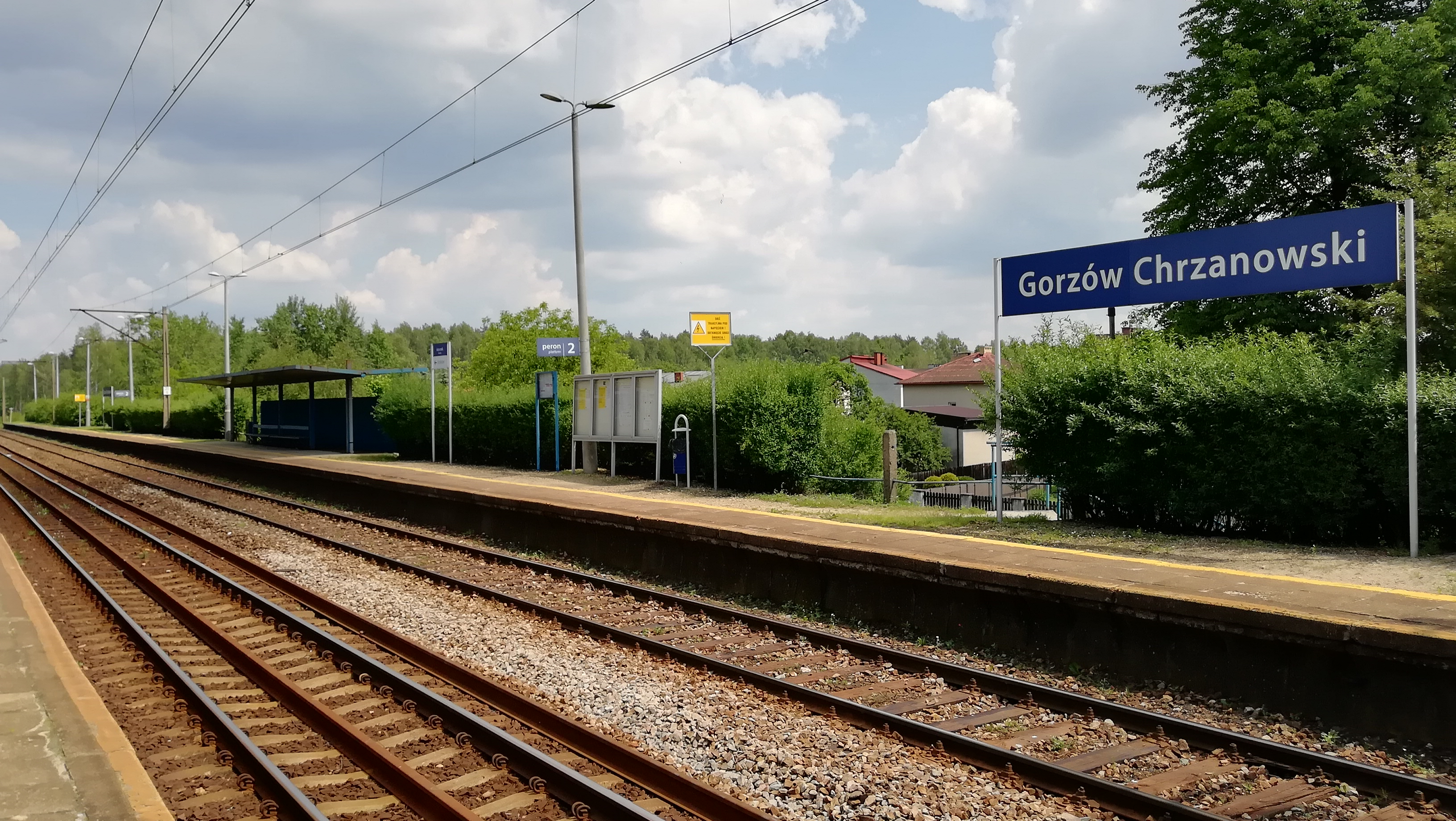 Train stop in Gorzów Chrzanowski